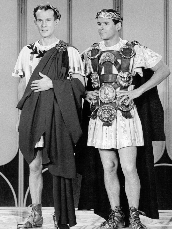 Photo of Tom and Dick Smothers from the television program The Smothers Brothers Comedy Hour.